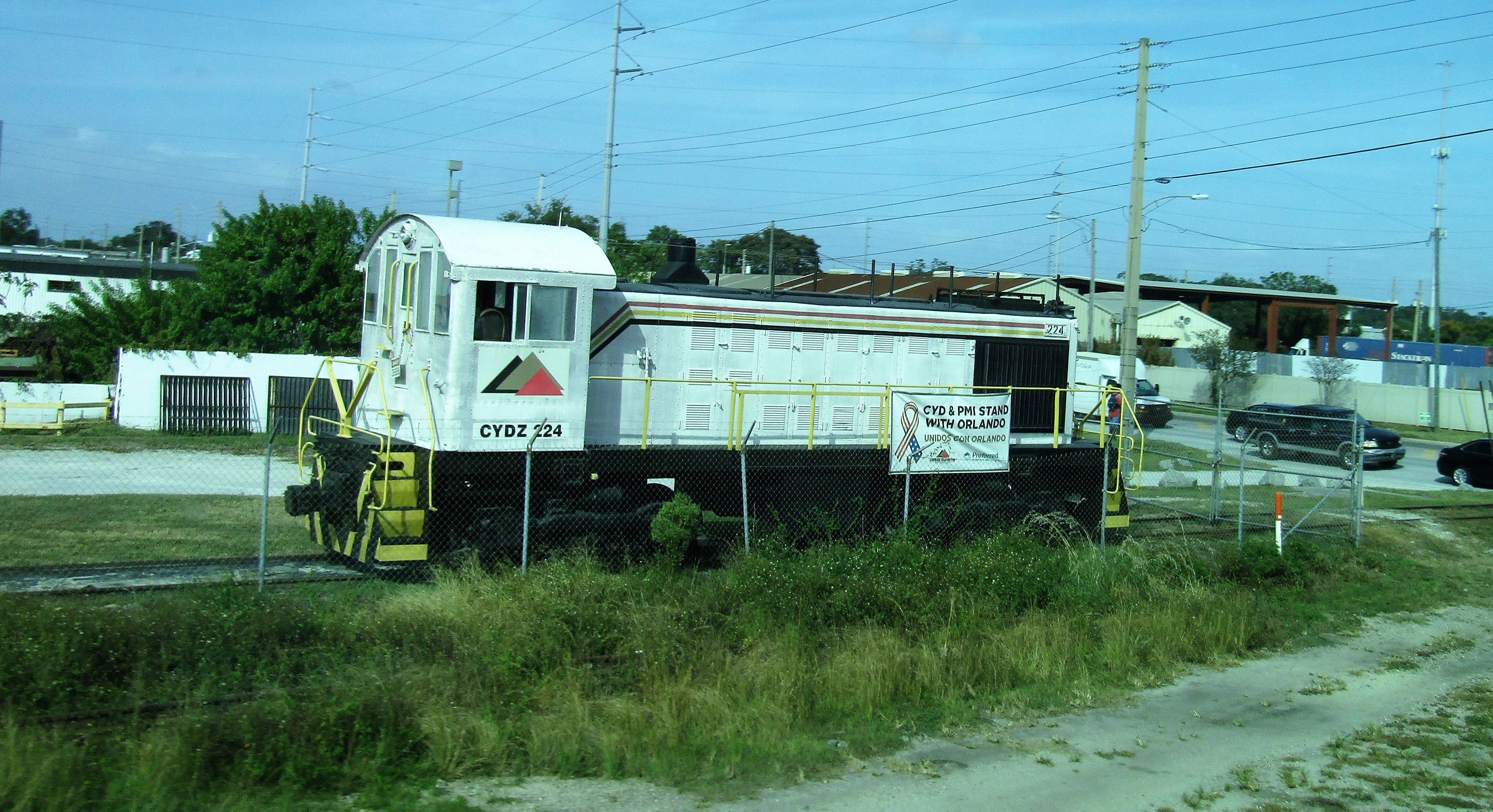 Locomotive ALCO S2 292 CYDZ - Conrad Yelvington Distributors in Orlando-FL